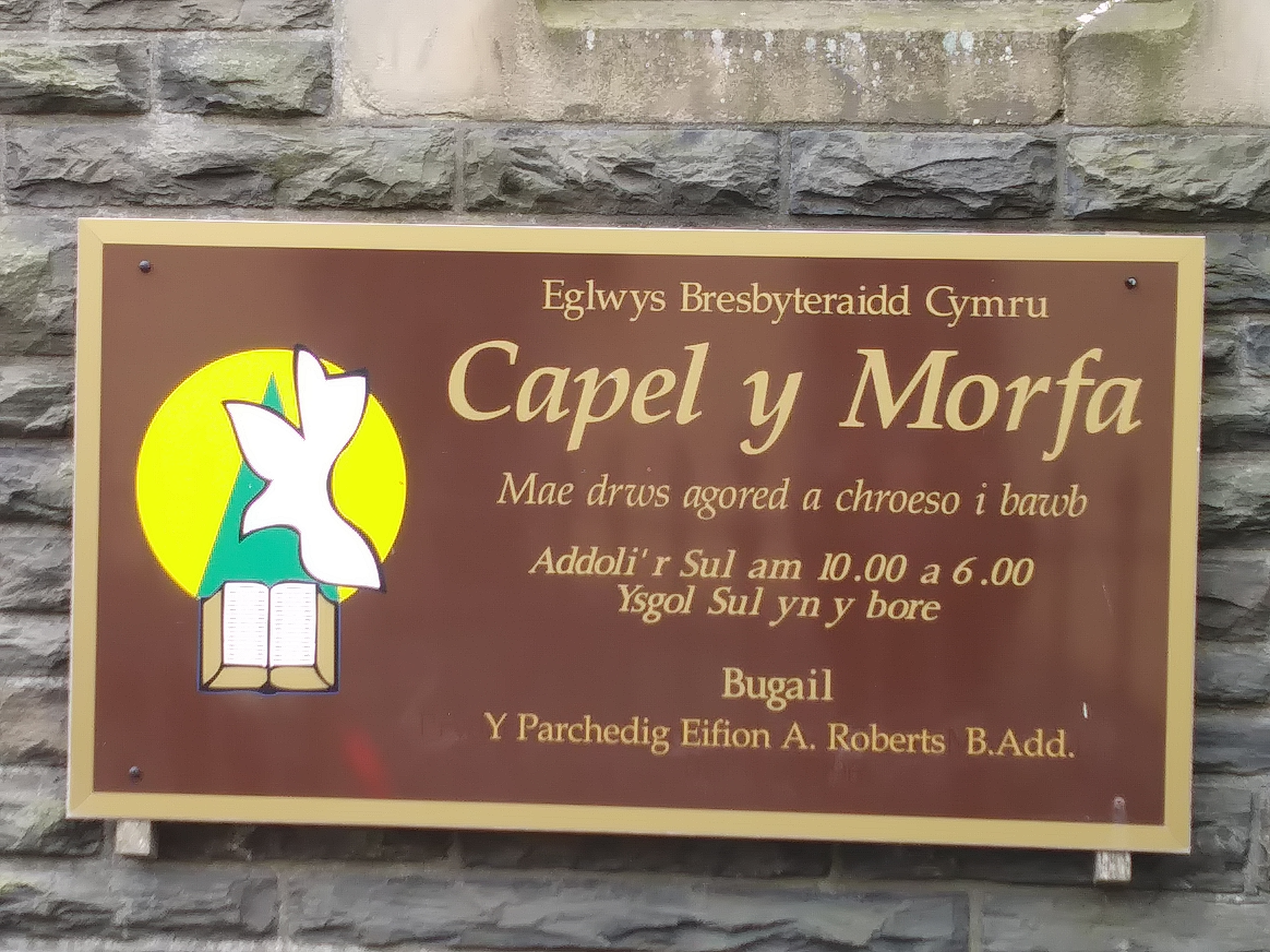 Capel y Morfa, Aberystwyth plaque